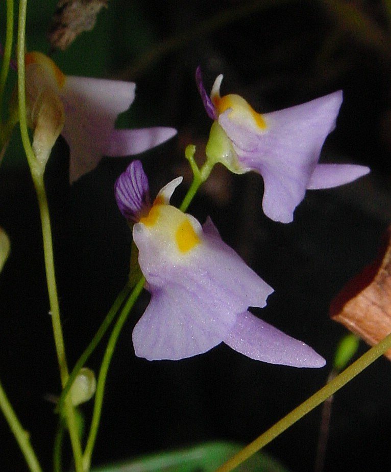 Description:Utricularia warburgii flower in cultivation Photo taken by: Noah Elhardt